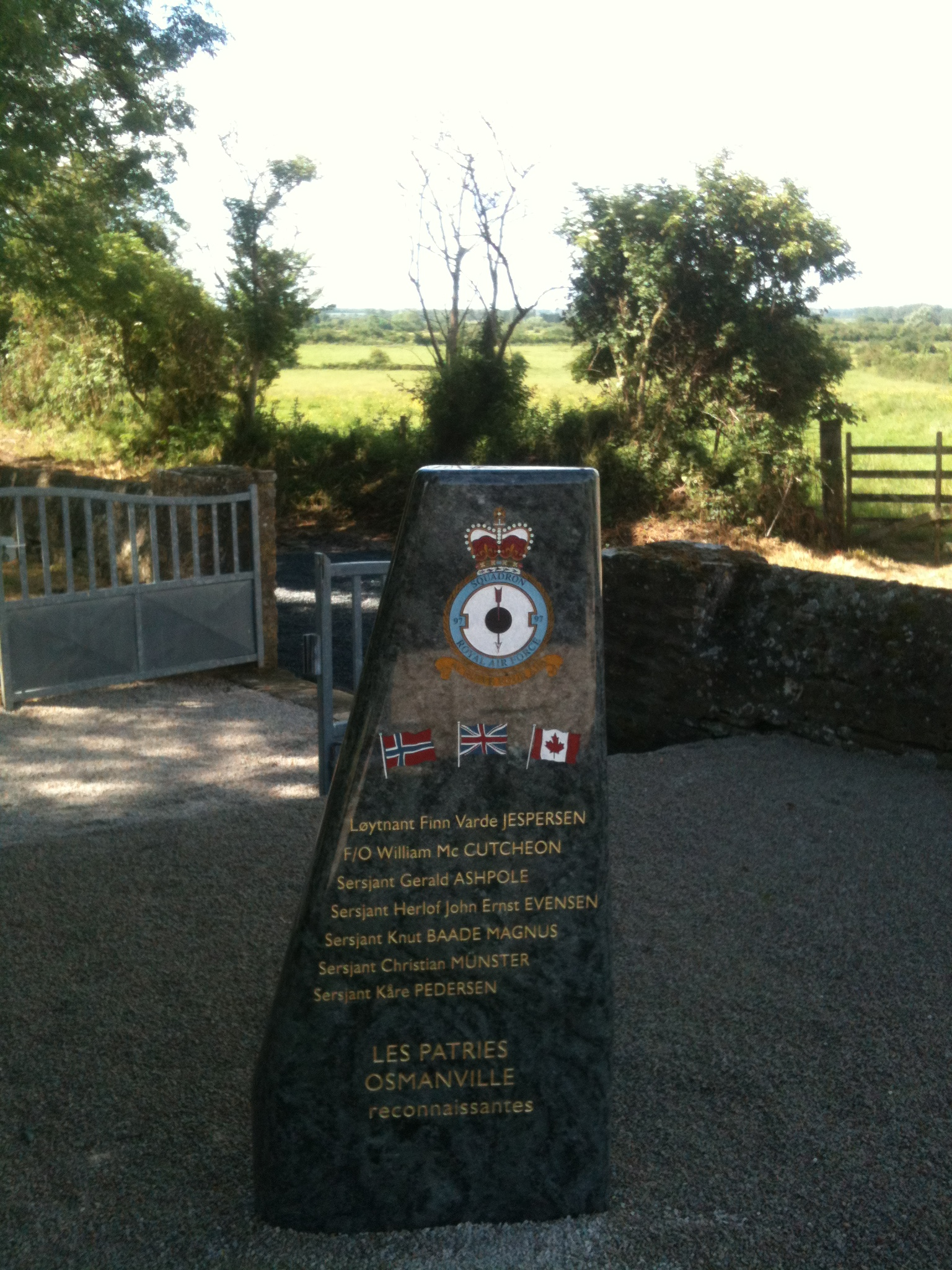 Memorial over Finn Varde Jespersen and his crew at the French village of Osmanville, names of the crew - one British, one Canadian and four Norwegians is listed on the memorial